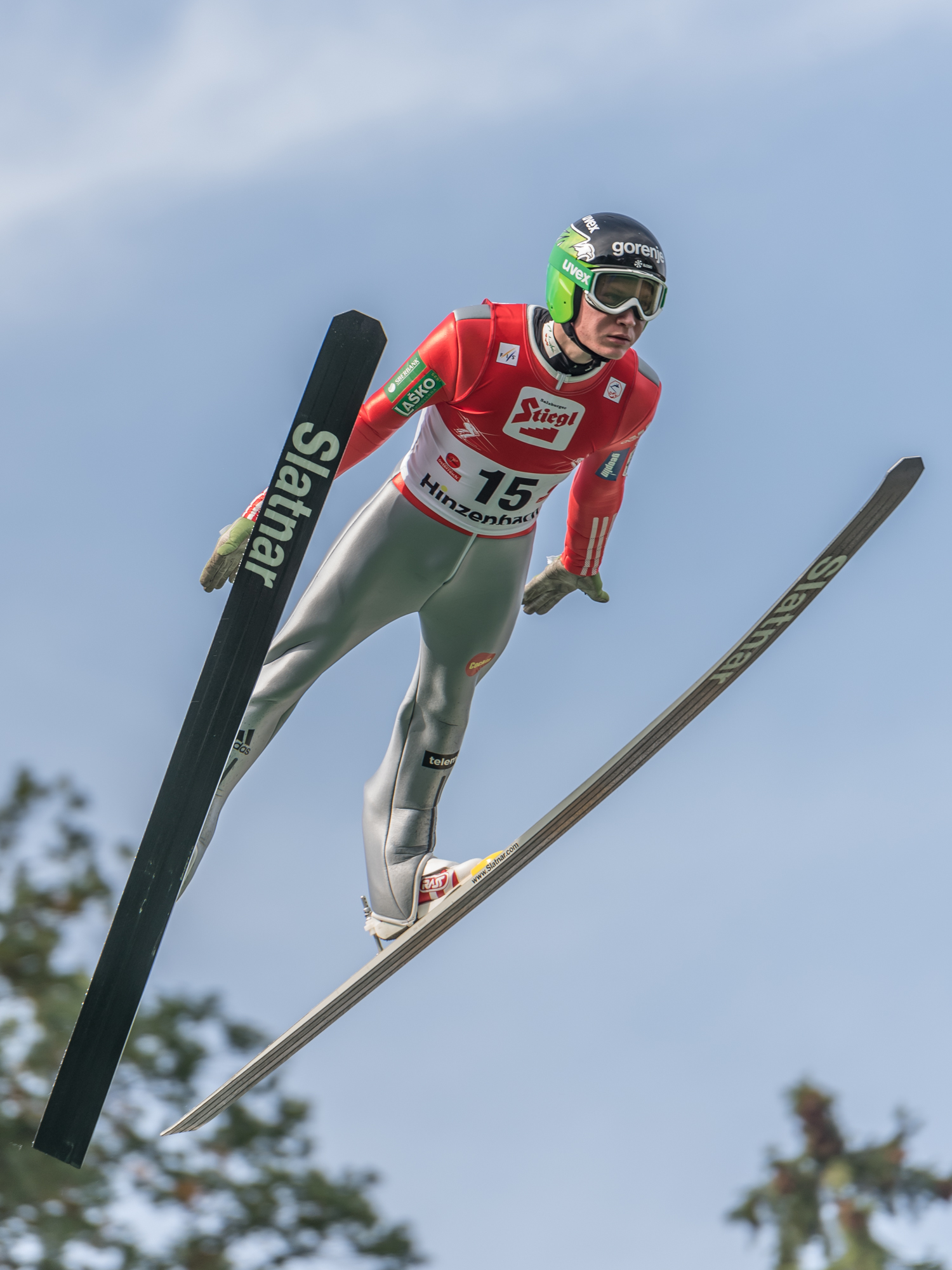 Hinzenbach, Austria, FIS Ski Jumping Grand Prix 2016